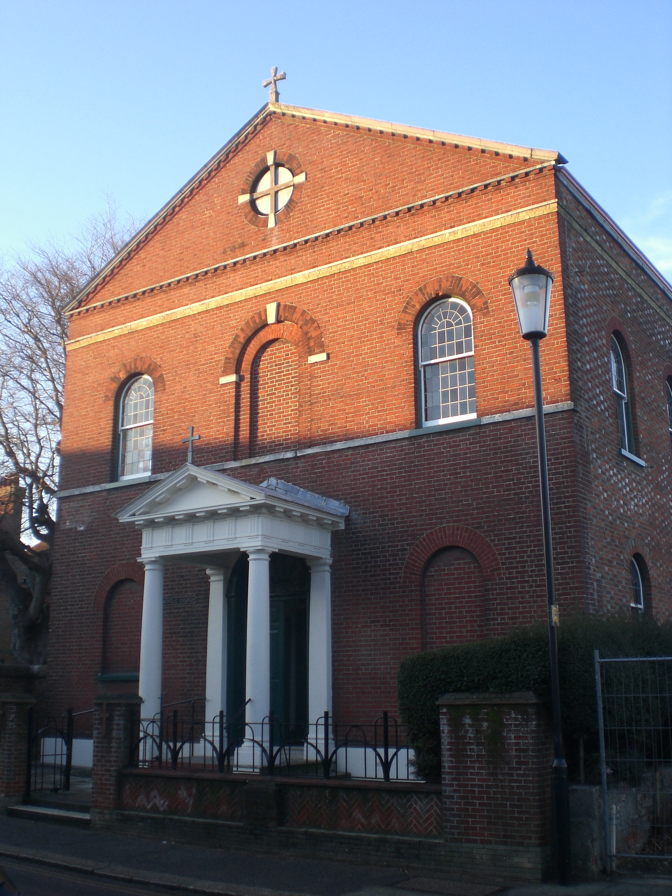 St. Thomas of Canterbury Catholic Church on Pyle Street in Newport.